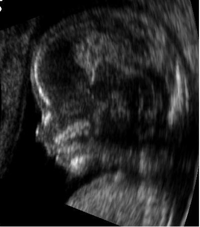 Profil d'un embryon de 14 semaines.Embryo at 14 weeks (profile).